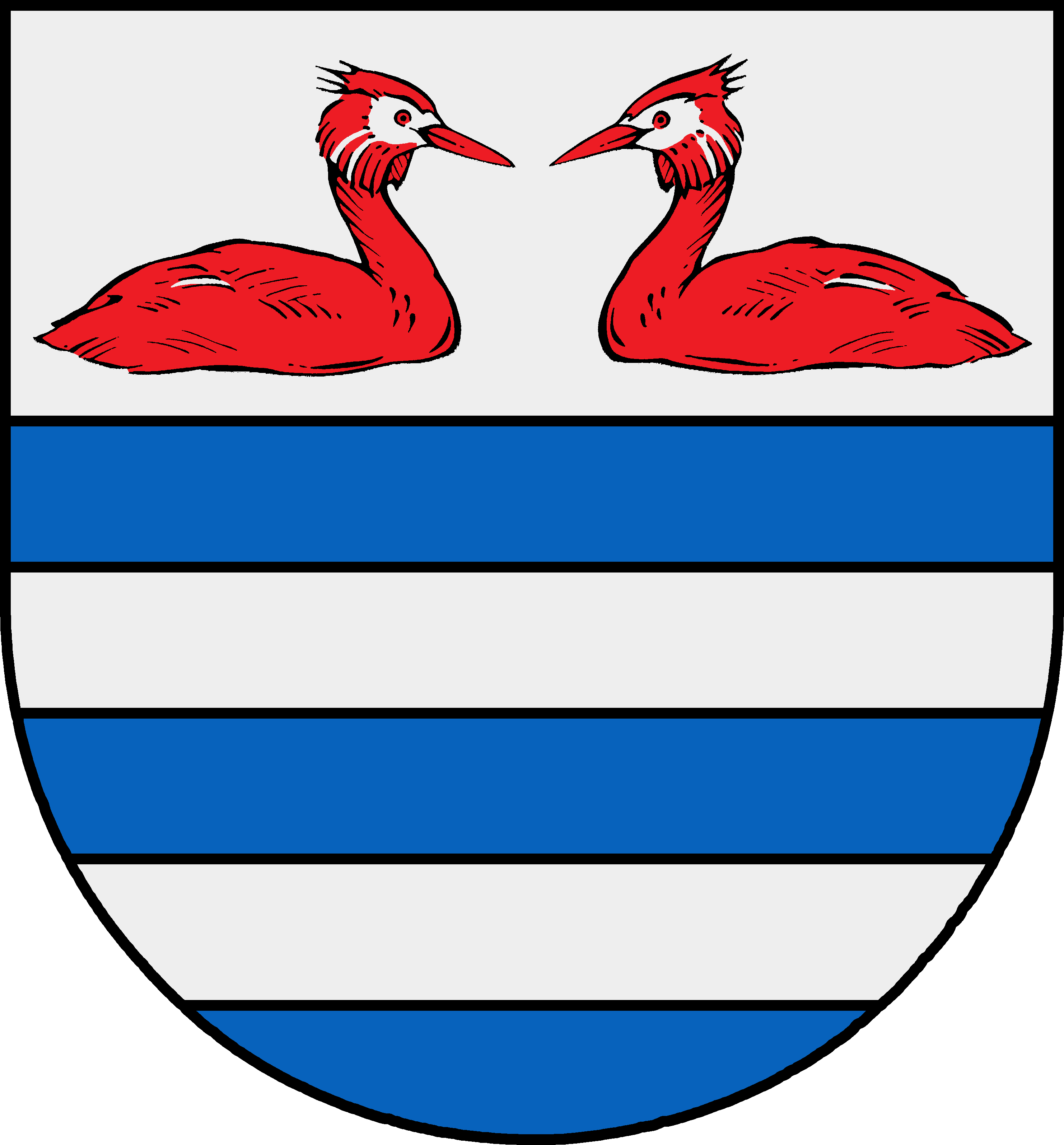 Coat of arms of the municipality Passade in Schleswig-Holstein, Germany.